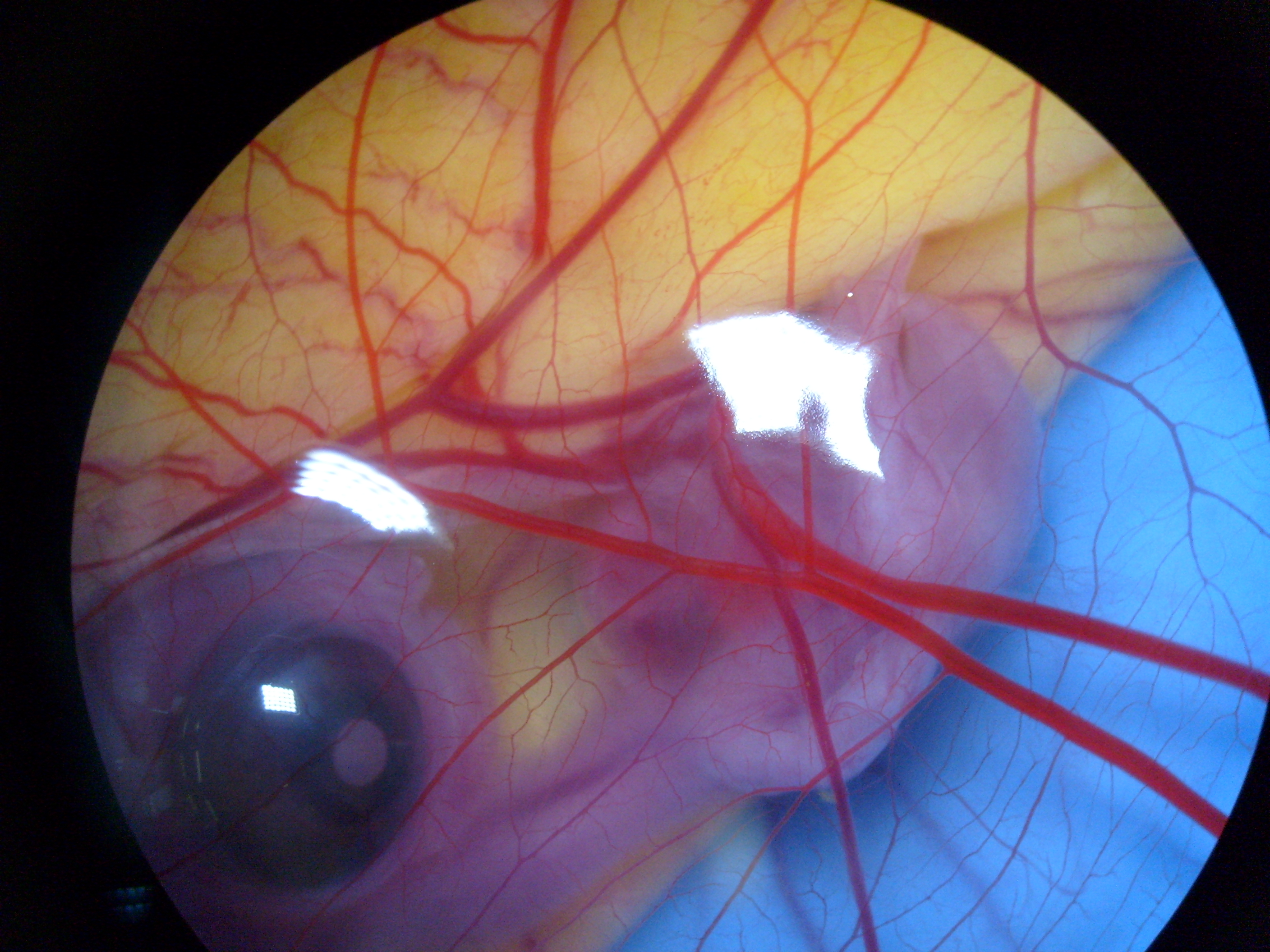 Chicken embryo, 1 week old, stereomicroscope (0,8)